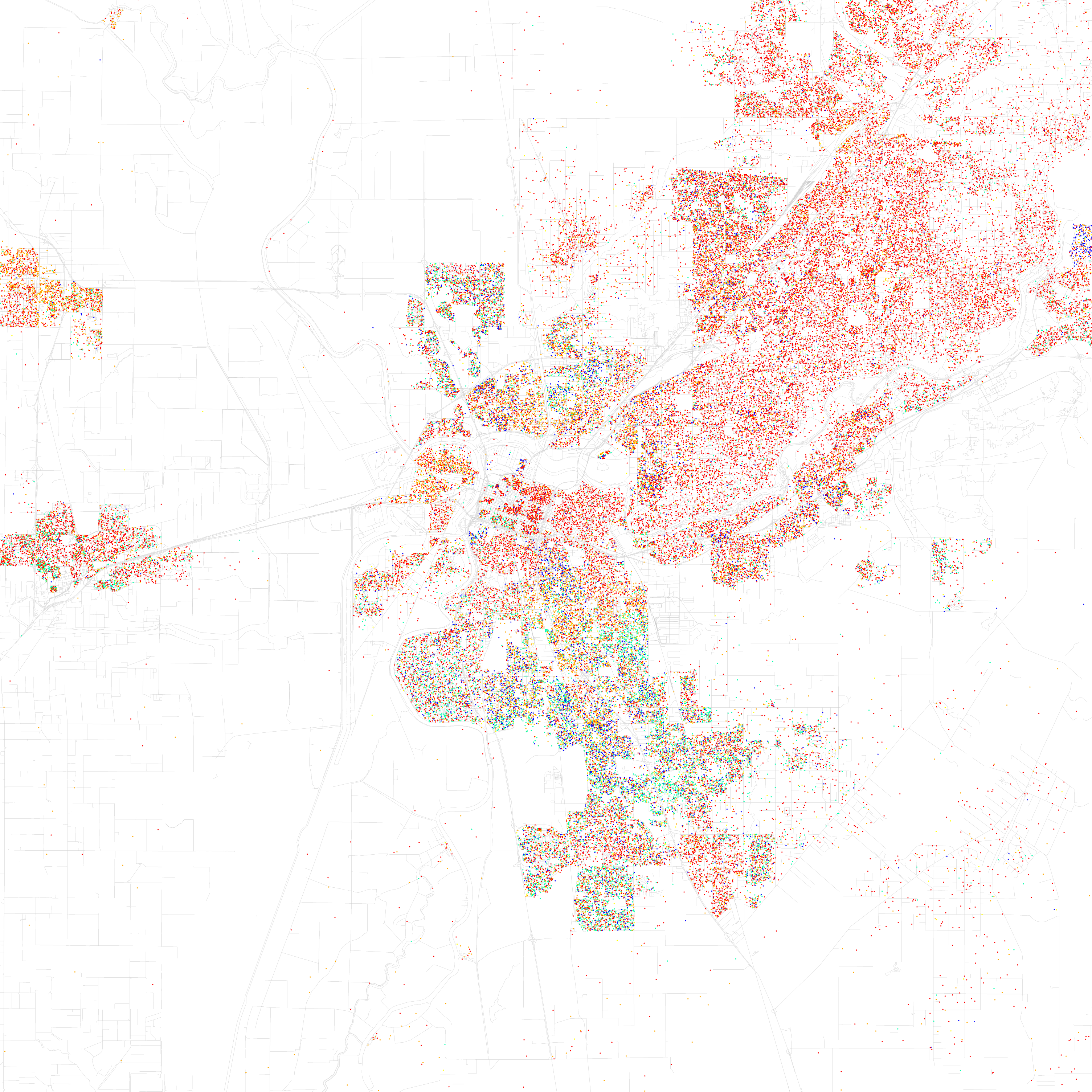 Maps of racial and ethnic divisions in US cities, inspired by Bill Rankin's map of Chicago, updated for Census 2010. Red is White, Blue is Black, Green is Asian, Orange is Hispanic, Yellow is Other, and each dot is 25 residents. Data from Census 2010. Base map © OpenStreetMap, CC-BY-SA